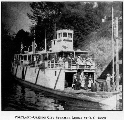 Steamboat Leona at the Oregon City dock on the Willamette River, taken in 1901 or before.